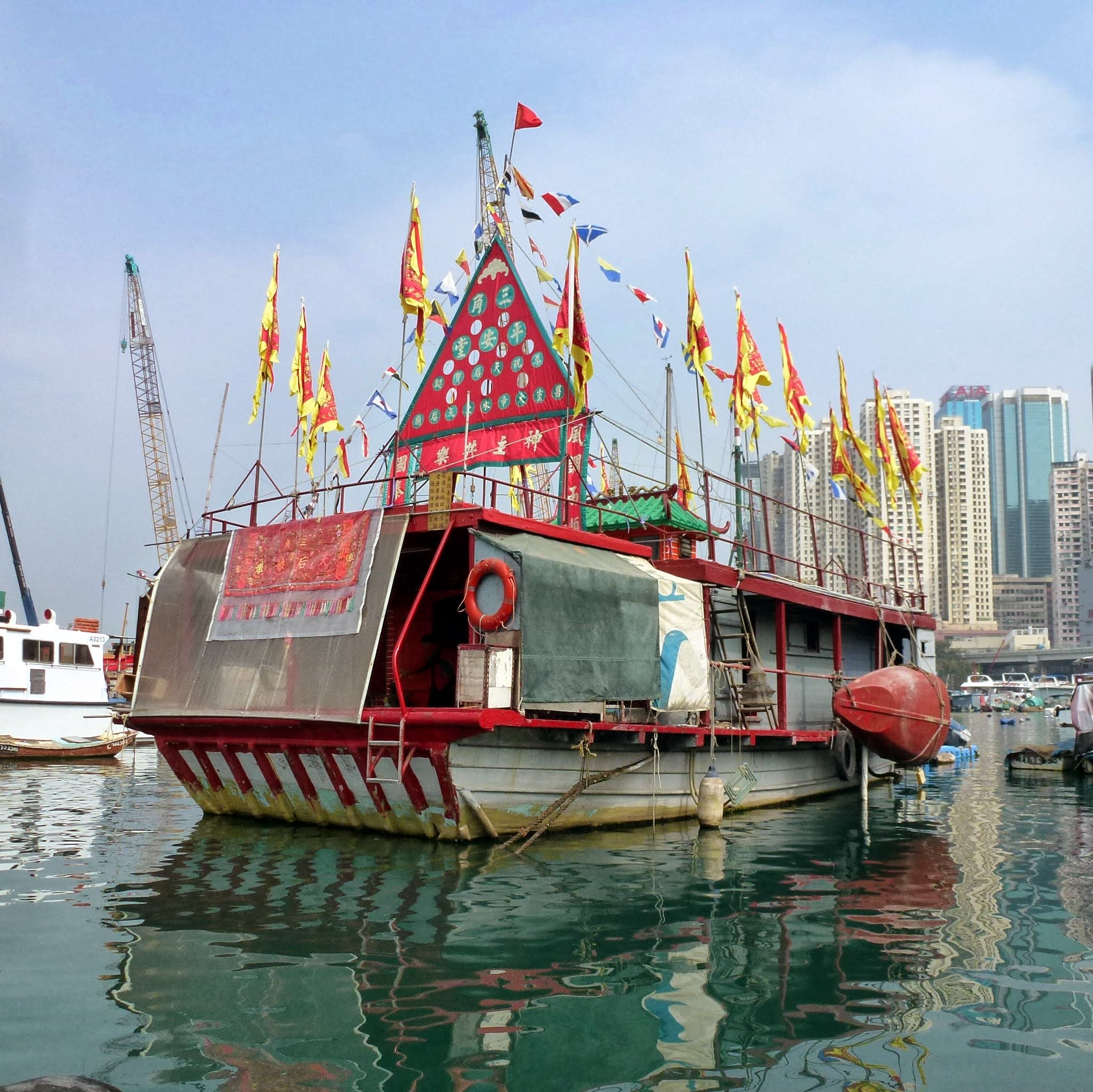 Causeway Bay Typhoon Shelter, Hong Kong